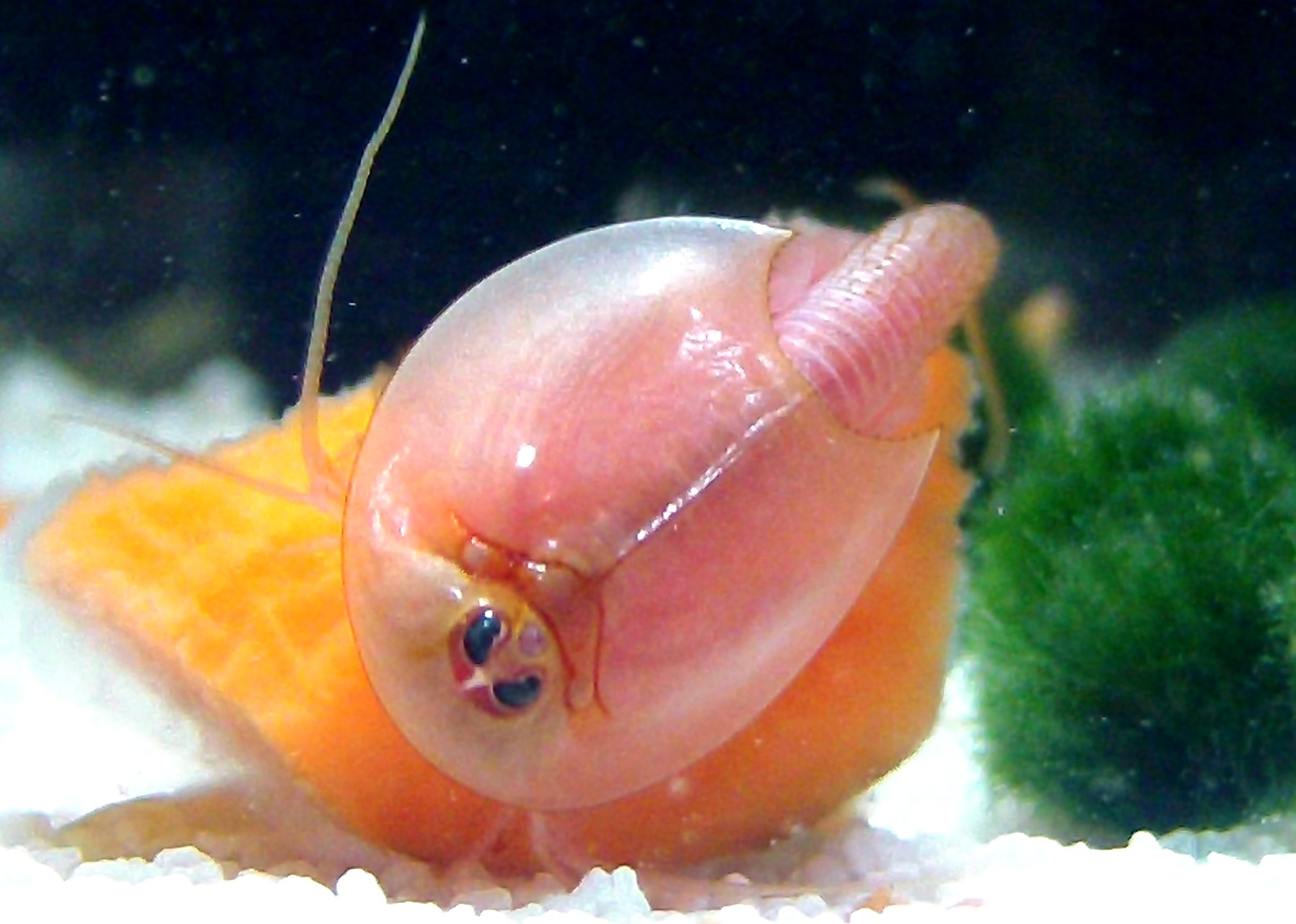 Captive Triops longicaudatus red variant eating a carrot.